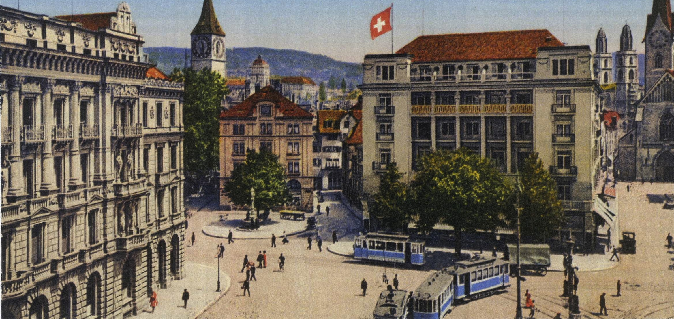 Paradeplatz um 1910